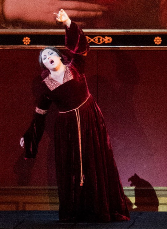 Anna Netrebko as Leanora in Il Trovatore, Salzburg 2014